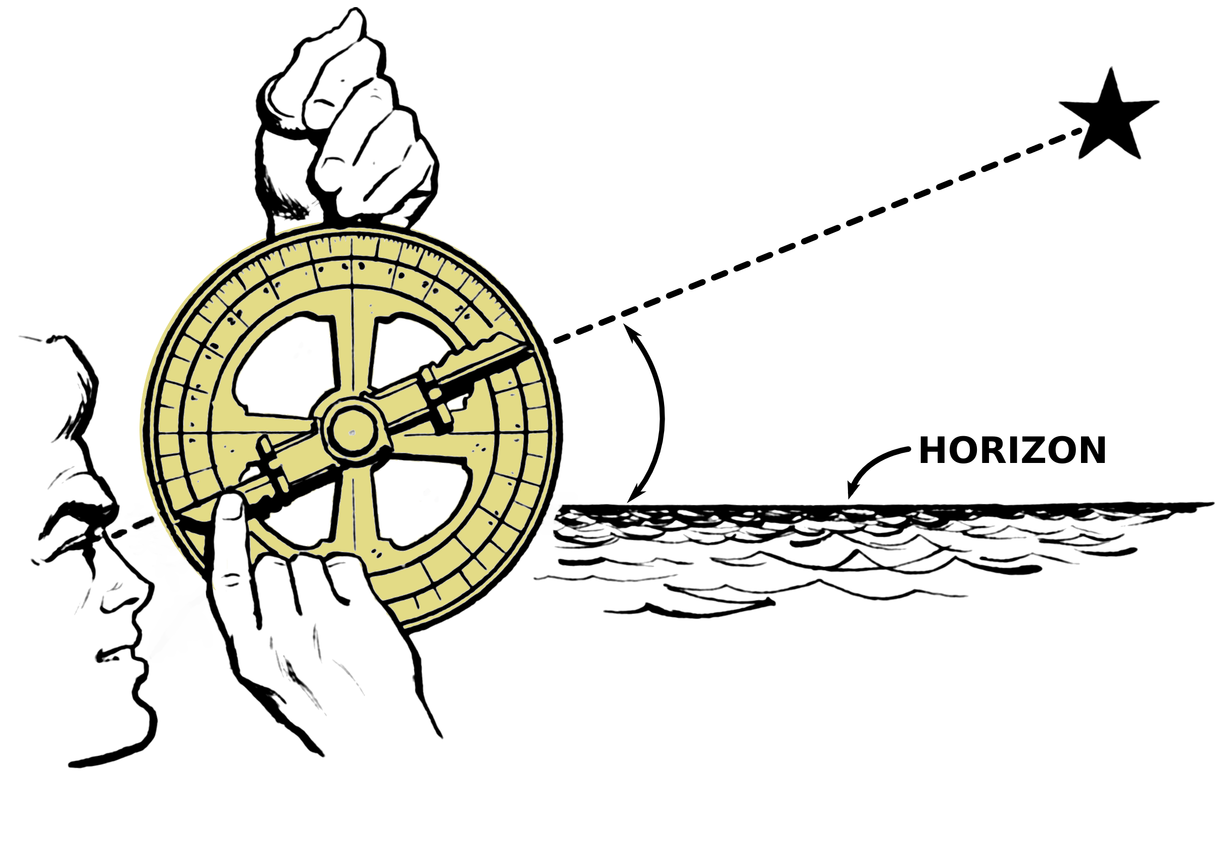 Line art drawing of astrolabe.